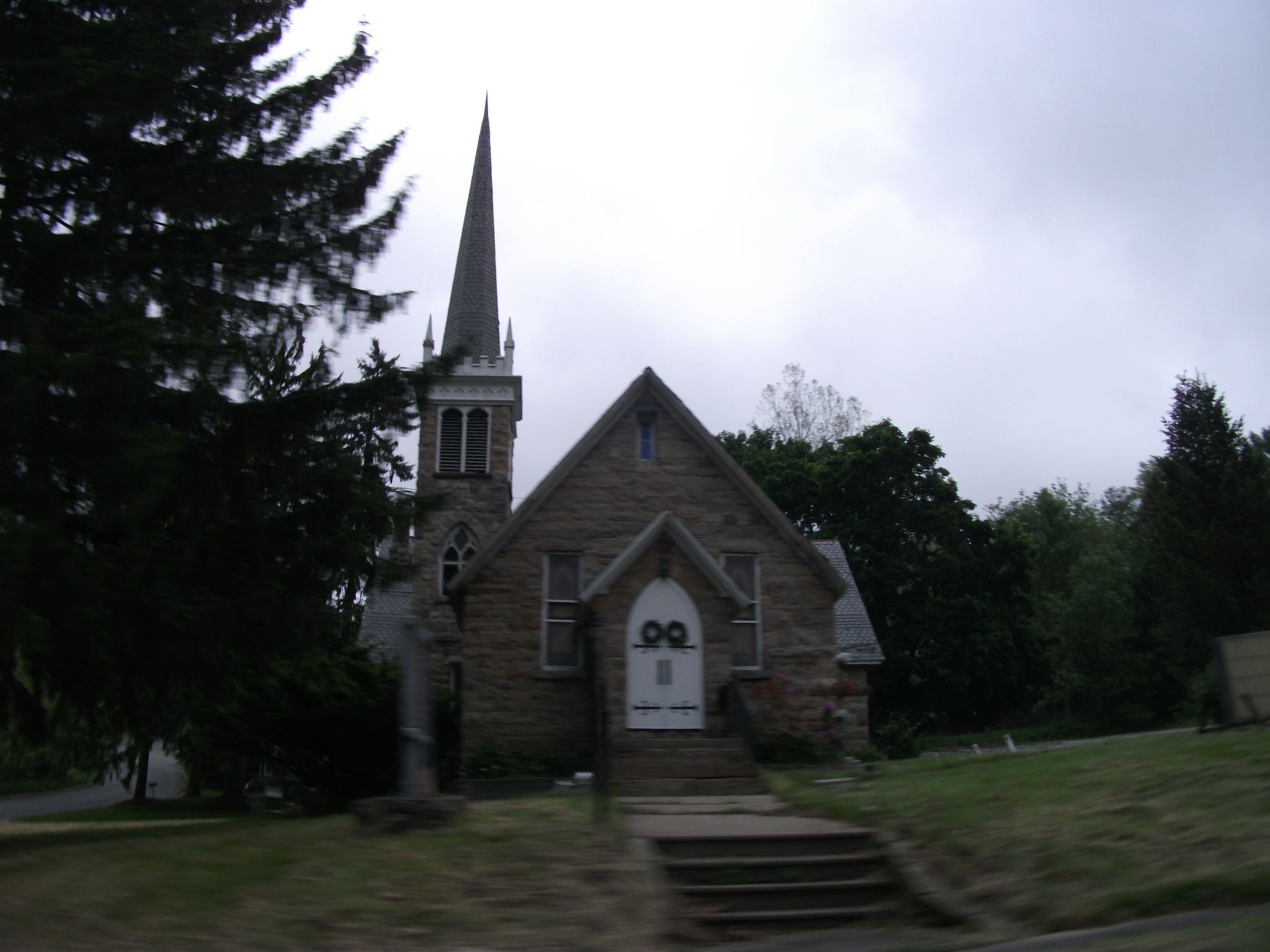 Church in Hamburg, New Jersey